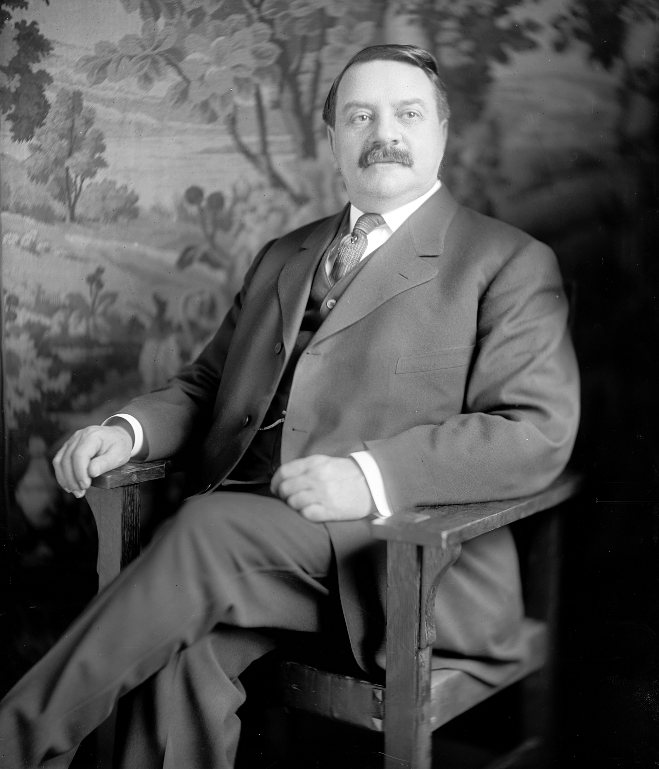 Jesse Lee Hartman, US Representative from Pennsylvania